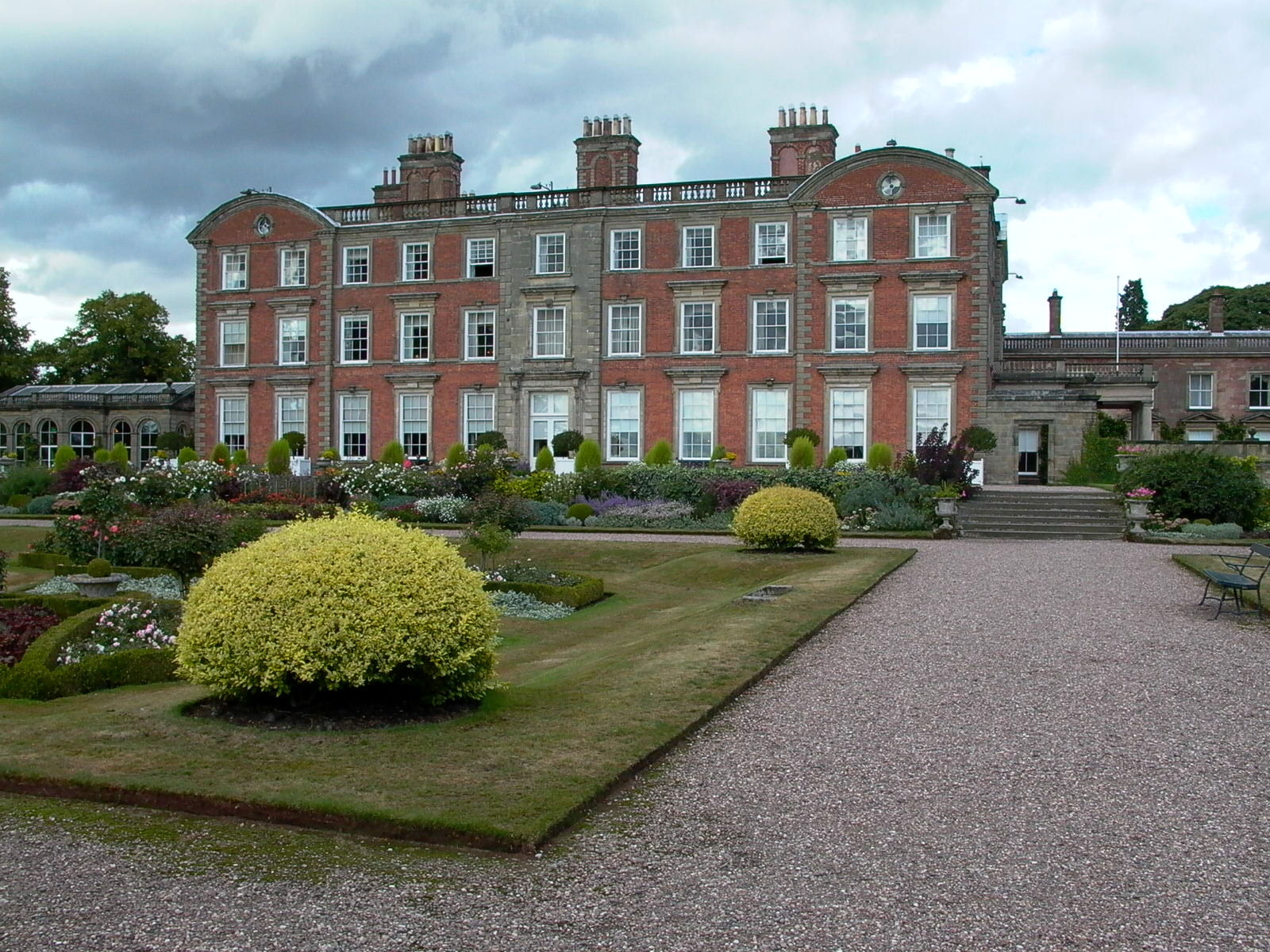 Weston Park, Weston-under-Lizard, Shropshire TF11 8LE Southern facade of Weston House, set in 1,000 acres of ‘Capability’ Brown parkland.